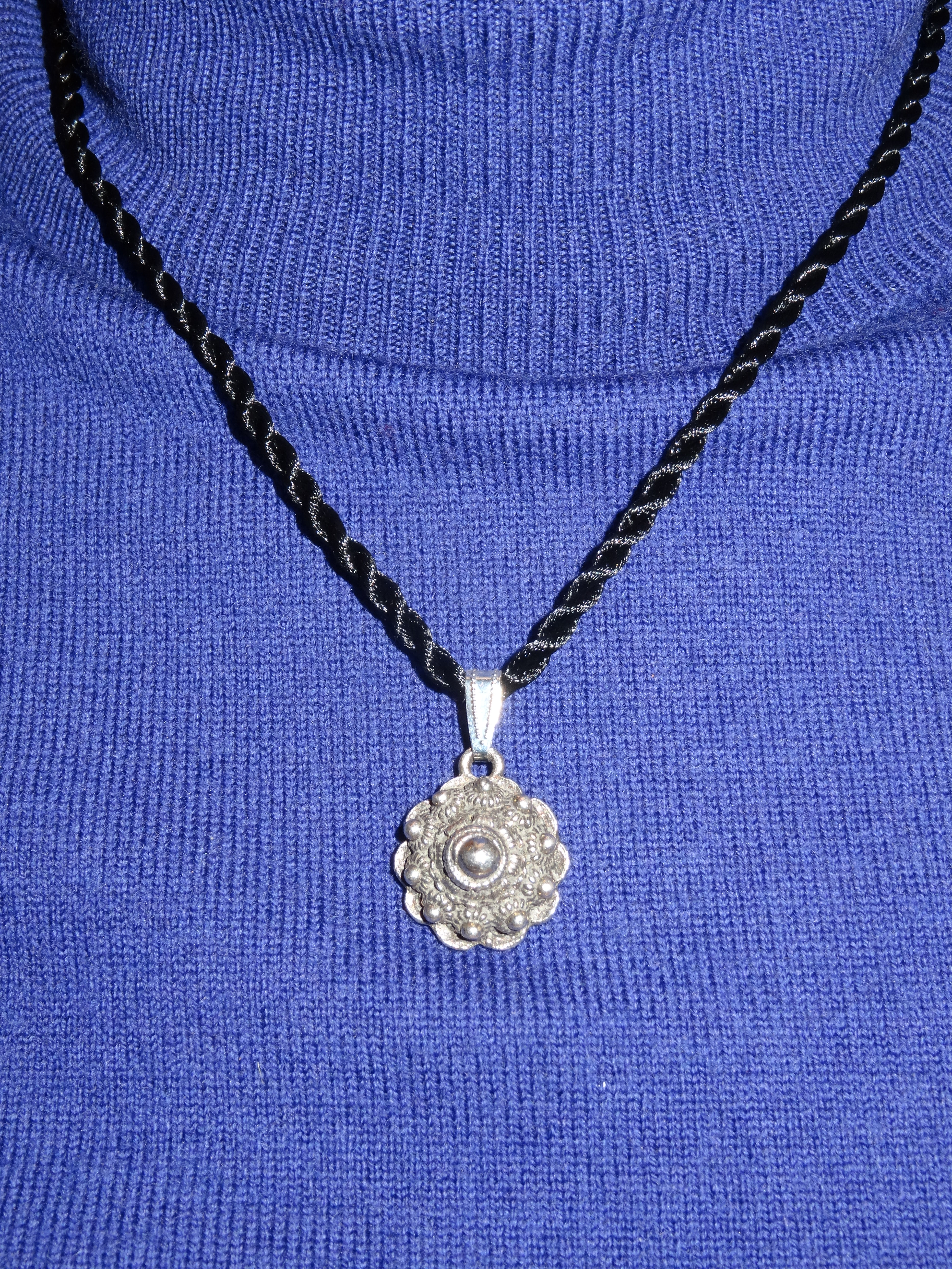 Dutch button (jewelry)